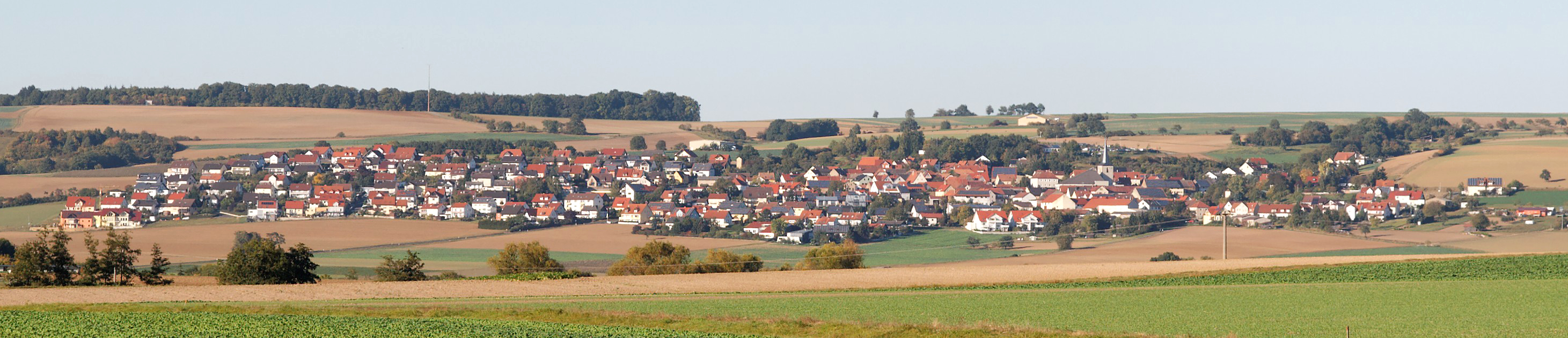 Forst, a quarter of Schonungen as seen from Weyer.